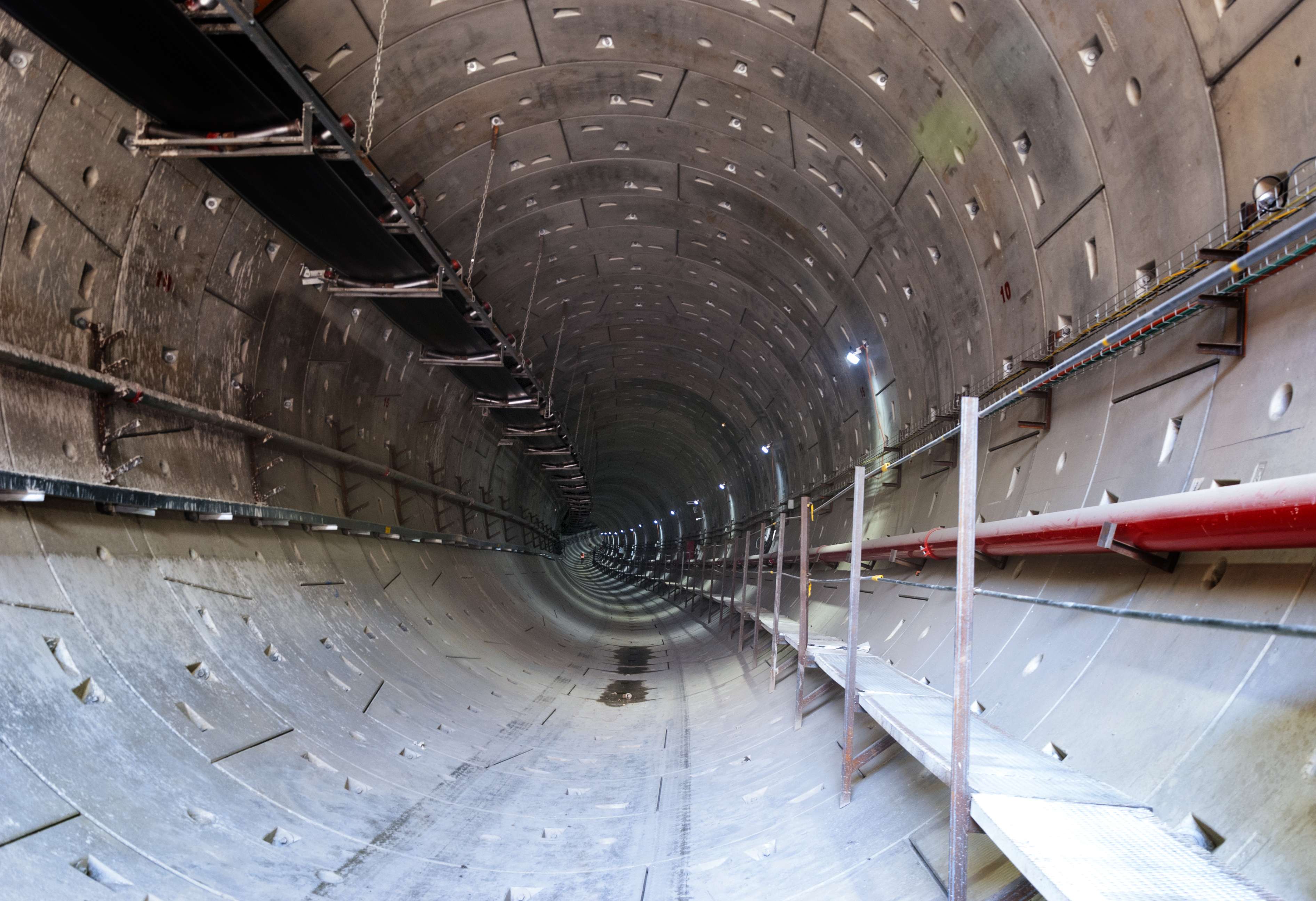 Tunnel 5 at Em HaMoshavot depot of the Tel Aviv Light Rail in Petah Tikva, Israel.